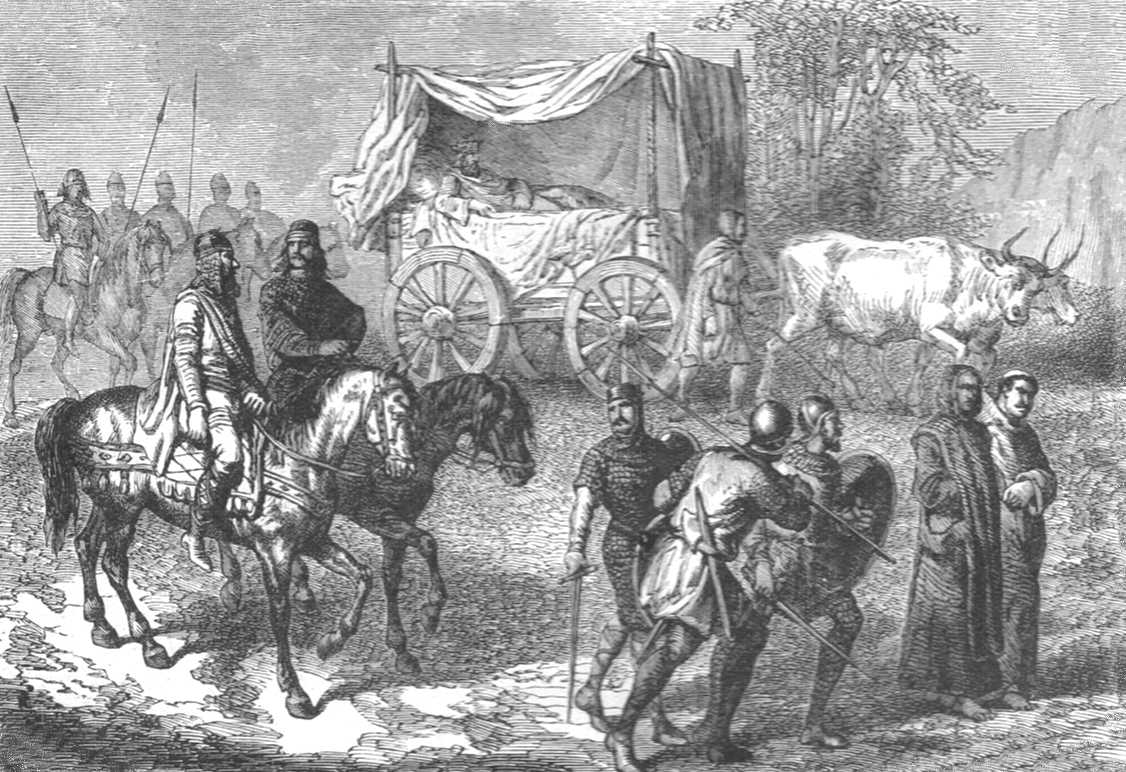 A Merovingian "do-nothing" king in his bullock cart.